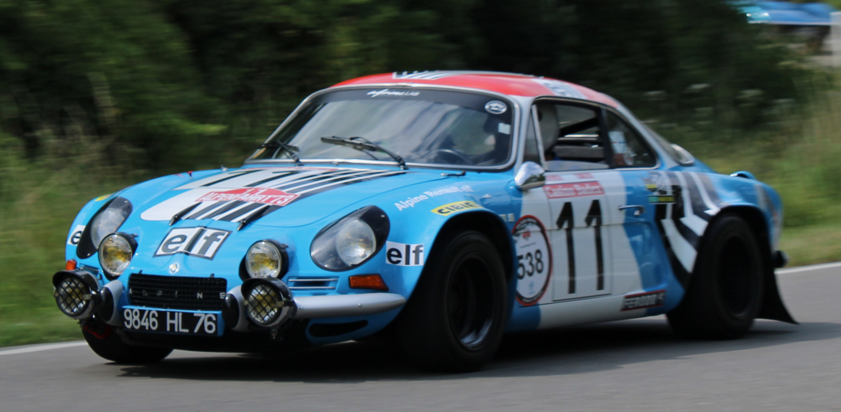 Alpine A110 1800 Gr. IV (1973) at Solitude Revival 2019